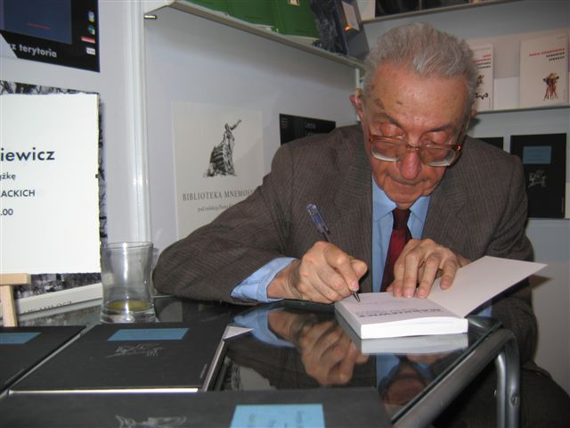 Henryk Markiewicz (1922-2013), Polish literary historian and essayist